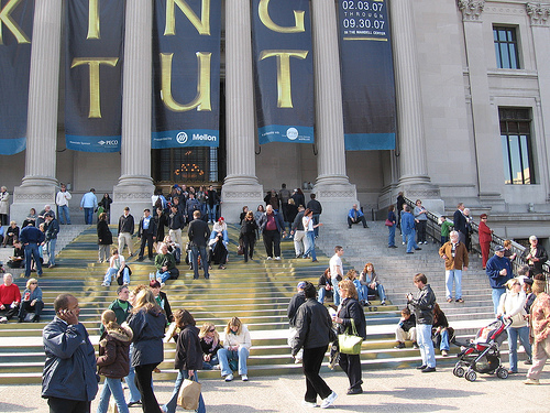 Image of the Front Steps on a warm day in March.